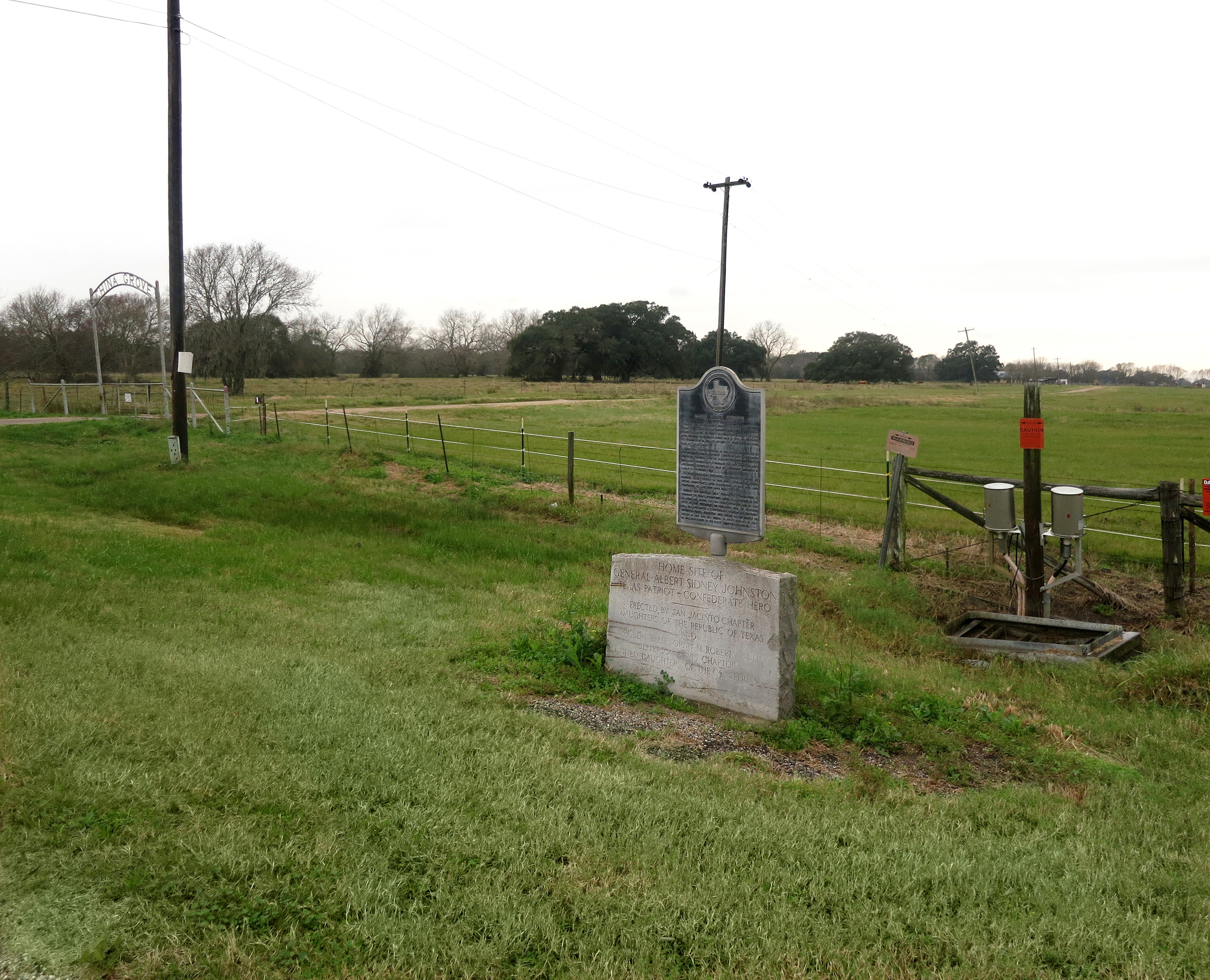 After the death of his first wife, Albert Sidney Johnson went to Texas and lived on his large plantation he called China Grove. They settled here from 1843 to 1849. This location is now near a tiny village named Bonney in Brazoria County